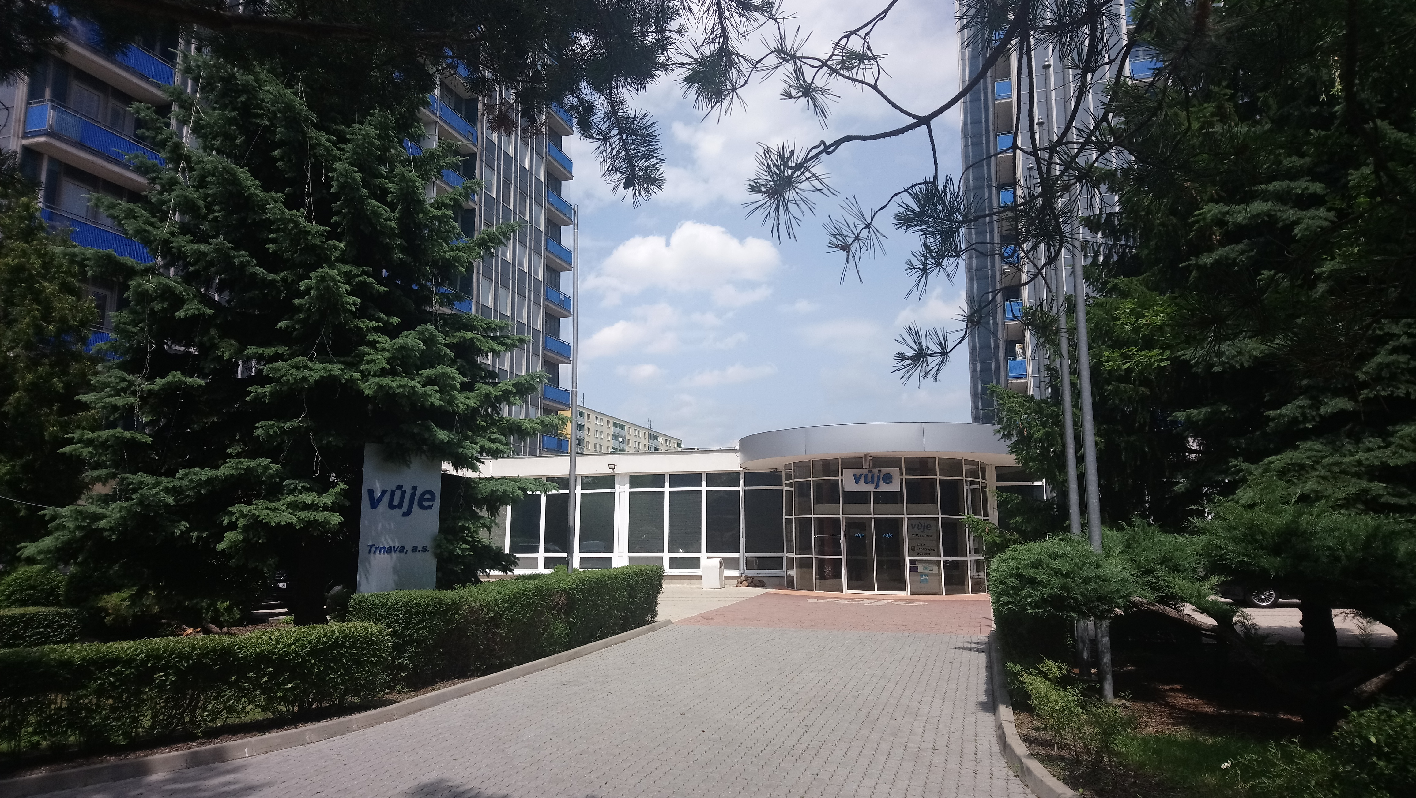 The building of VUJE, a. s. and NRA of Slovak Republic at Okružná street No. 5, Trnava